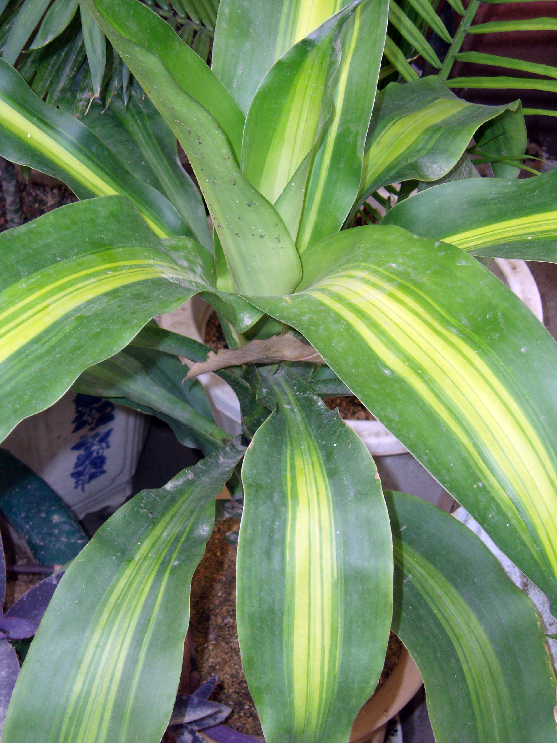 Corn plant